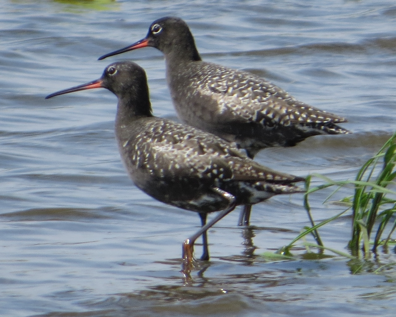 Tringa erythropus (summer plumage), in Aichi prefecture, Japan.